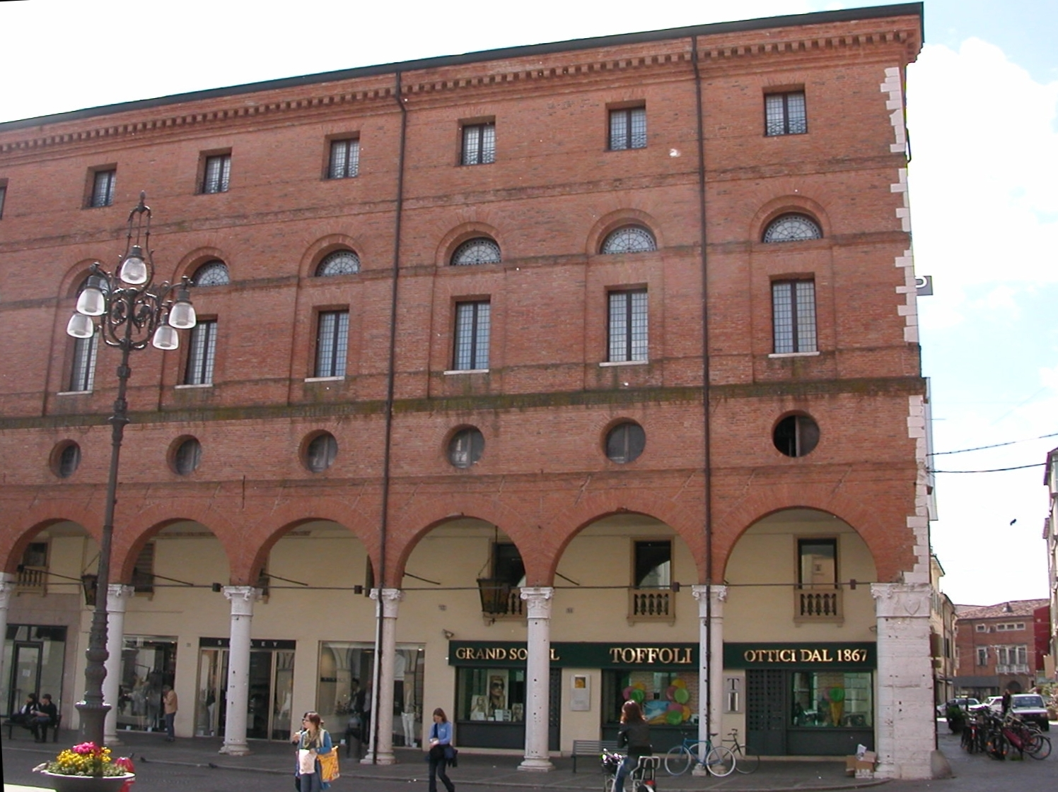 Roverella Palace in Rovigo; Vittorio Emanuele II square view.